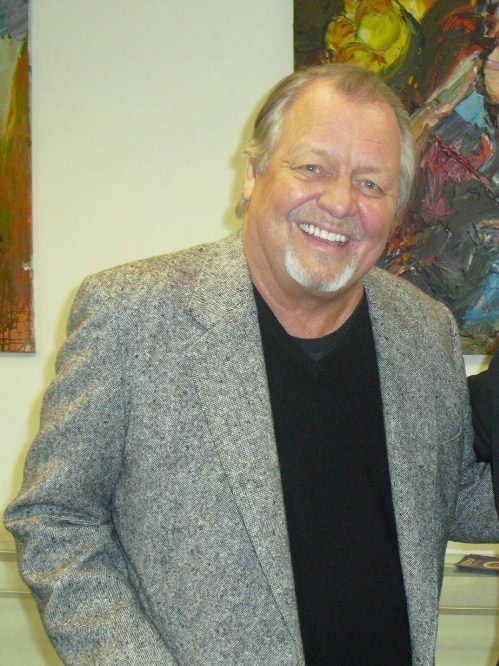 Famed actor David Soul.